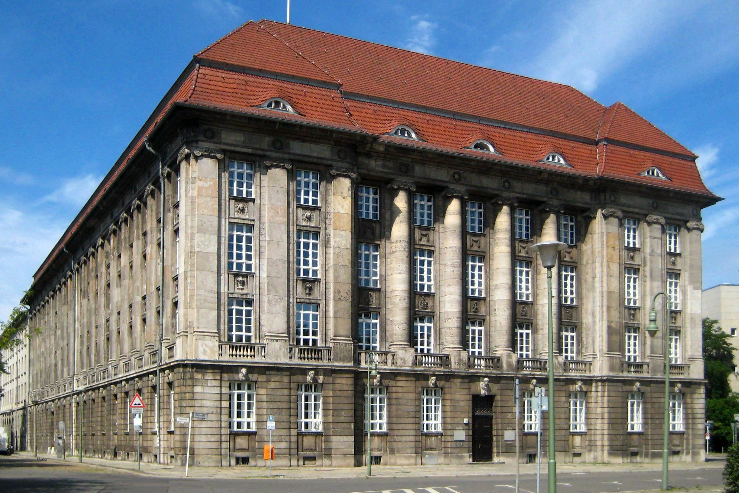 The former administration building of Berliner Gaswerke AG (GASAG), founded as municipal gas supplier, at Littenstraße 109, corner of Rolandufer (on the left) in Berlin-Mitte. The Neo-Renaissance buidling was erected 1907-1909 by architect Ludwig Hoffmann. It is now seat of the private Fachhochschule (or University of Applied Sciences) BEST-Sabel Berlin. The building has been designated as a historic landmark.